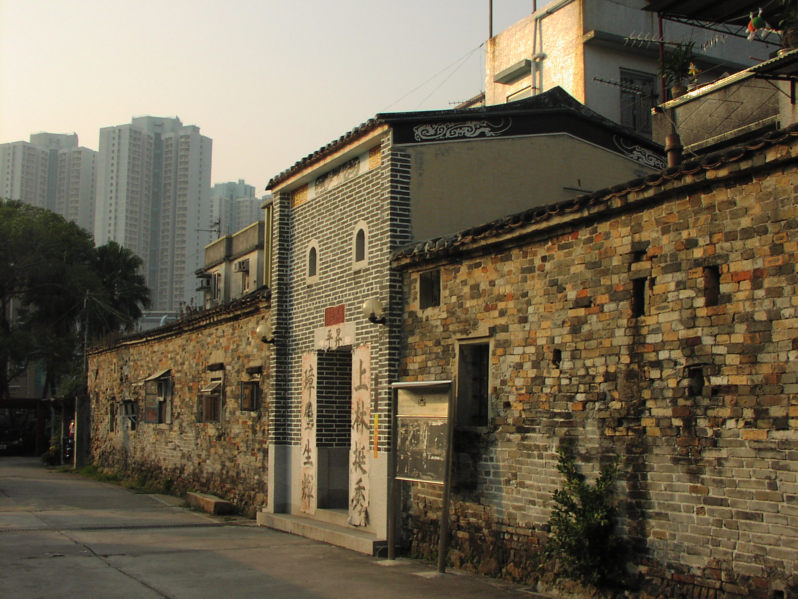 Sheung Cheung Wai